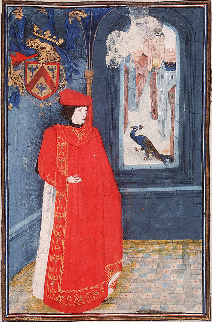 Statuts, Ordonnances et Armorial de l'Ordre de la Toison d'Or (Statutes, Ordonnances and armorial of the Order of the Golden Fleece) Place of origin, date: Southern Netherlands; 1473. Added sections: Southern Netherlands; 1478 or shortly after and 1491 or shortly after Material: Vellum, ff. 86, 249x187 (167x106) mm, 23 lines, littera cursiva (lettre bourguignonne). French. Binding: 18th-century brown leather Decoration: 1 full-page miniature (170x115 mm) with border decoration; 92 miniatures (185/155x120/100 mm); 1 historiated initial (80x90 mm) with border decoration; decorated initials with border decoration (ff., Added section: miniatures ; 4 drawings for miniatures (not finished) Provenance: Presented in 1473 by Gilles Gobet, King of Arms of the Order of the Golden Fleece, to Charles the Bold, Duke of Burgundy and the other Knights during the Chapter of the Order held at Valenciennes; Treasure of the Golden Fleece, Brussls; taken away by the Treasurer C.-F. Humyn (d. 1735) or his daughter C.Ch. de Corte; by legacy to her daughter M.-L. de Corte, wife of Ph.-E. de Poederlé; purchased in 1781 at the Poederlé sale by G.-J- Gérard of Brussels; acquired in 1832 as part of the Gérard collection (no. A 27)